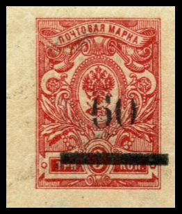 Stamps of Sochi, 1918